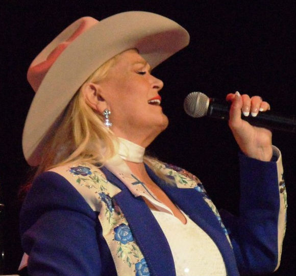 Lynn Anderson on stage April 2011